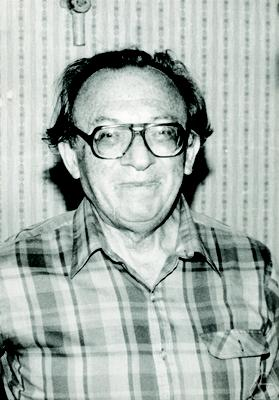 Picture of Boris Korenblum